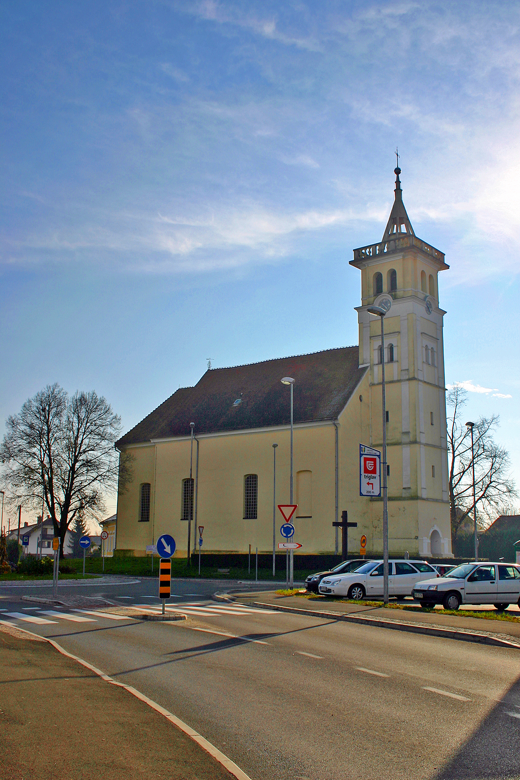 Saint James parish church in Dobrovnik.